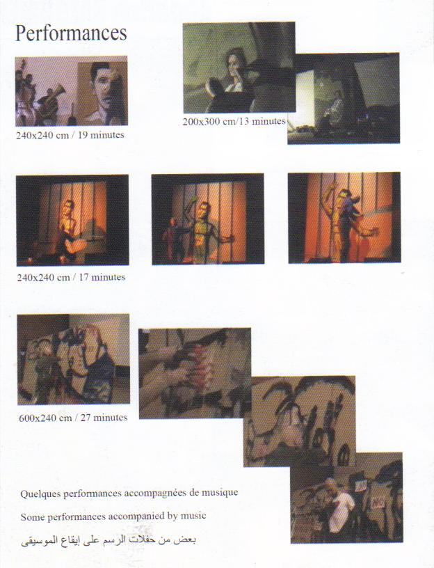 Performance Art of Abdallah Saloumeh